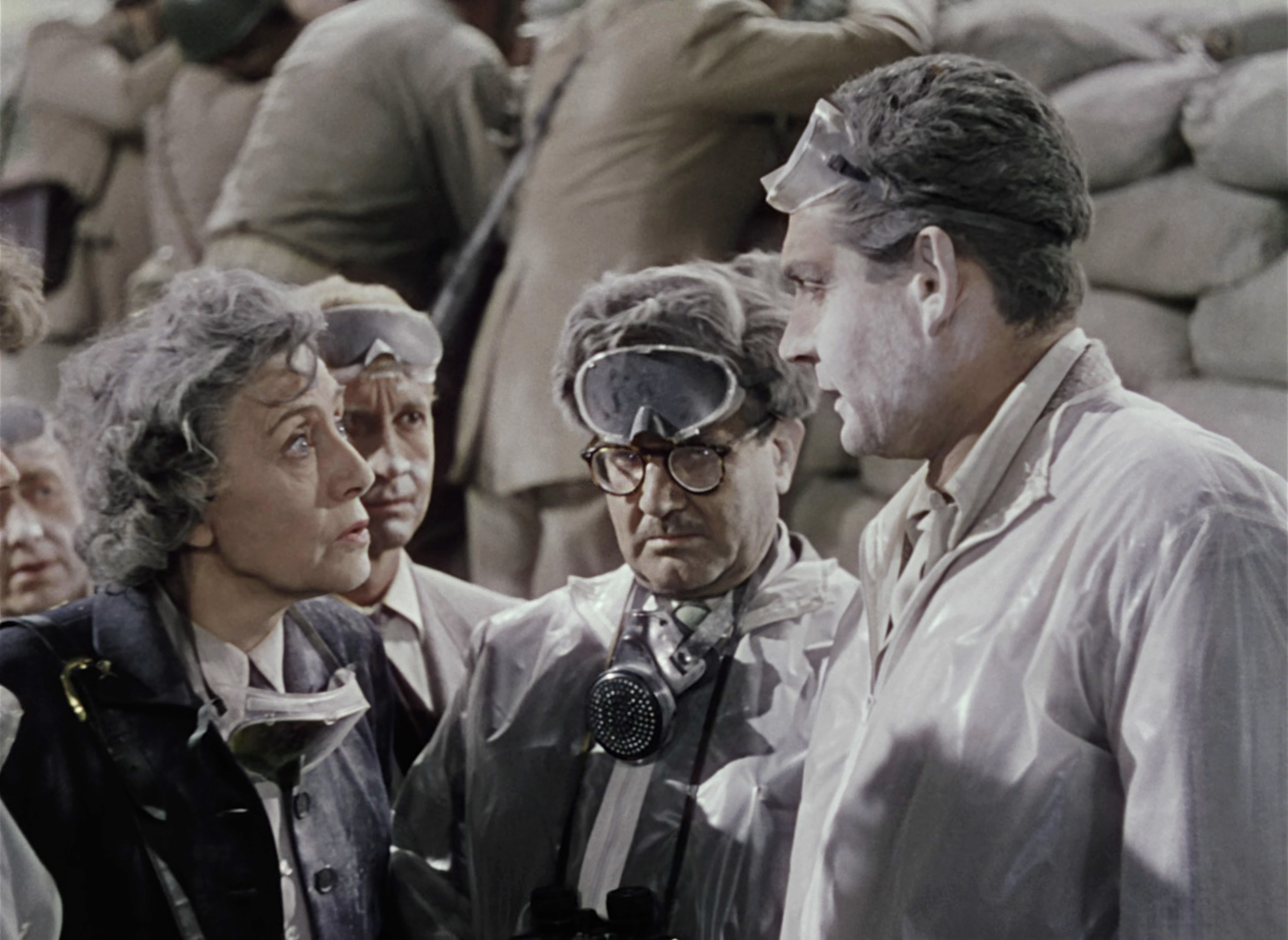 L. to R. : Ann Codee, Robert O. Cornthwaite, Sandro Giglio & Gene Barry in The War of the Worlds - trailer (cropped screenshot)